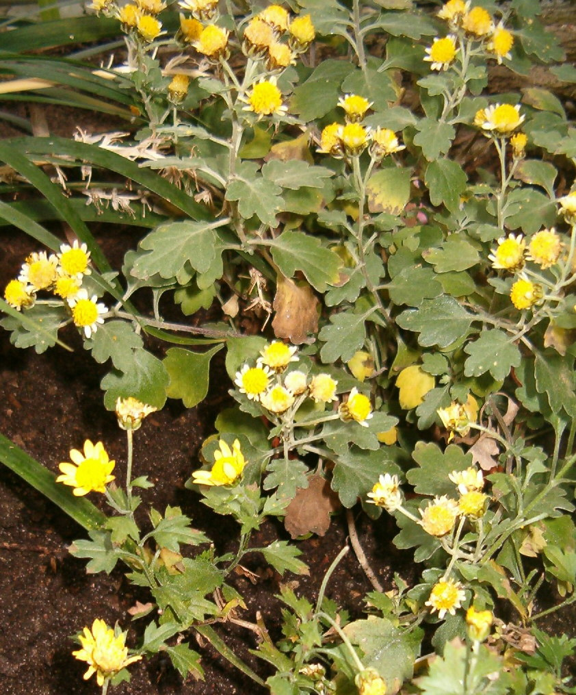 Location: Botanical Gardens Berlin Dahlem Collection of Original Country